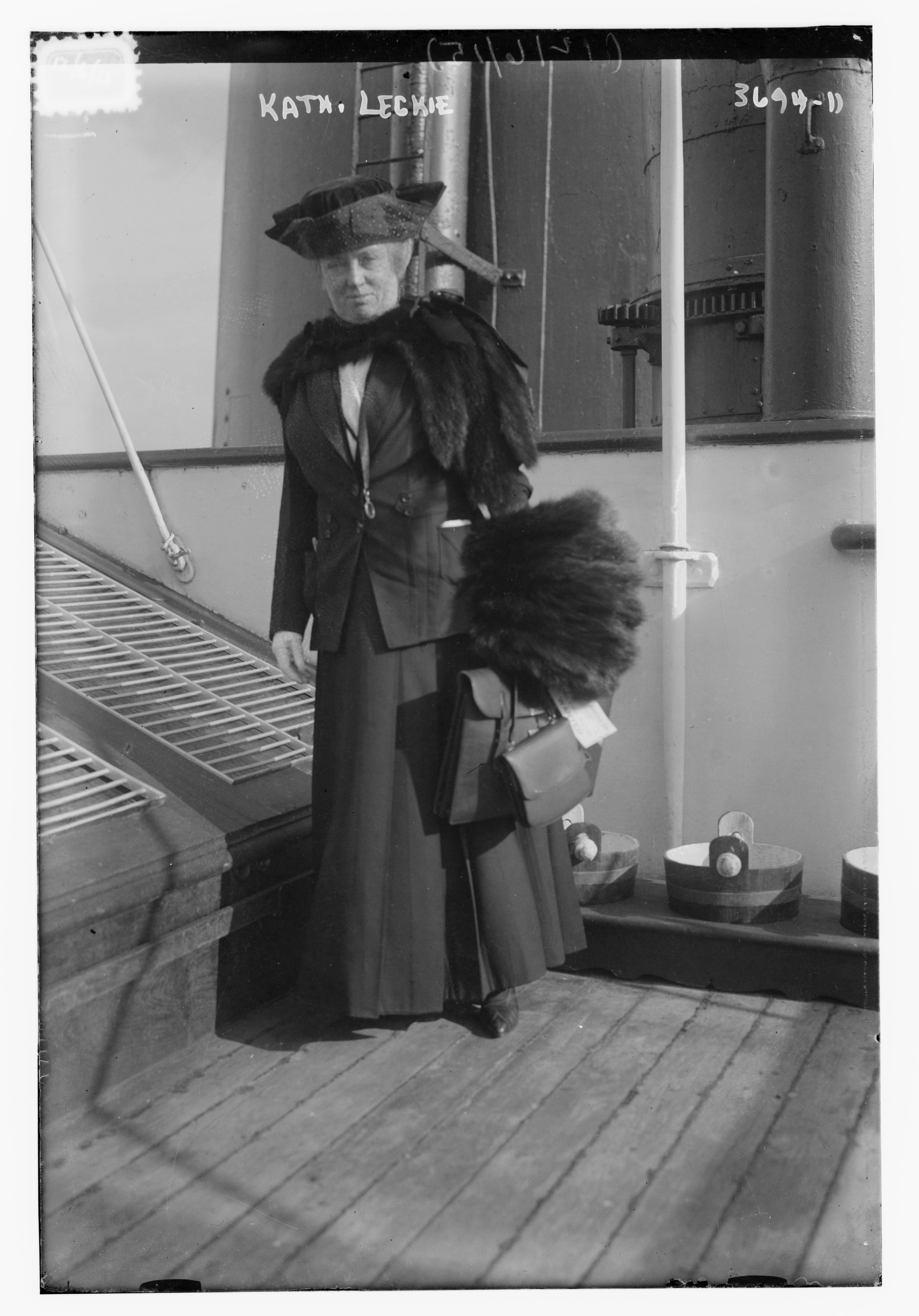 Title: Kath. Leckie Abstract/medium: 1 negative : glass ; 5 x 7 in. or smaller.